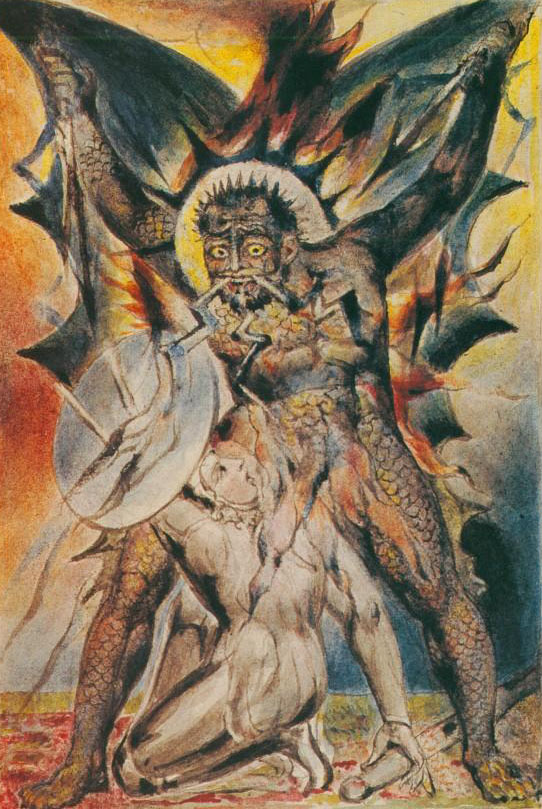 William Blake - John Bunyan Plate 20 The Christian Fights Apollyon